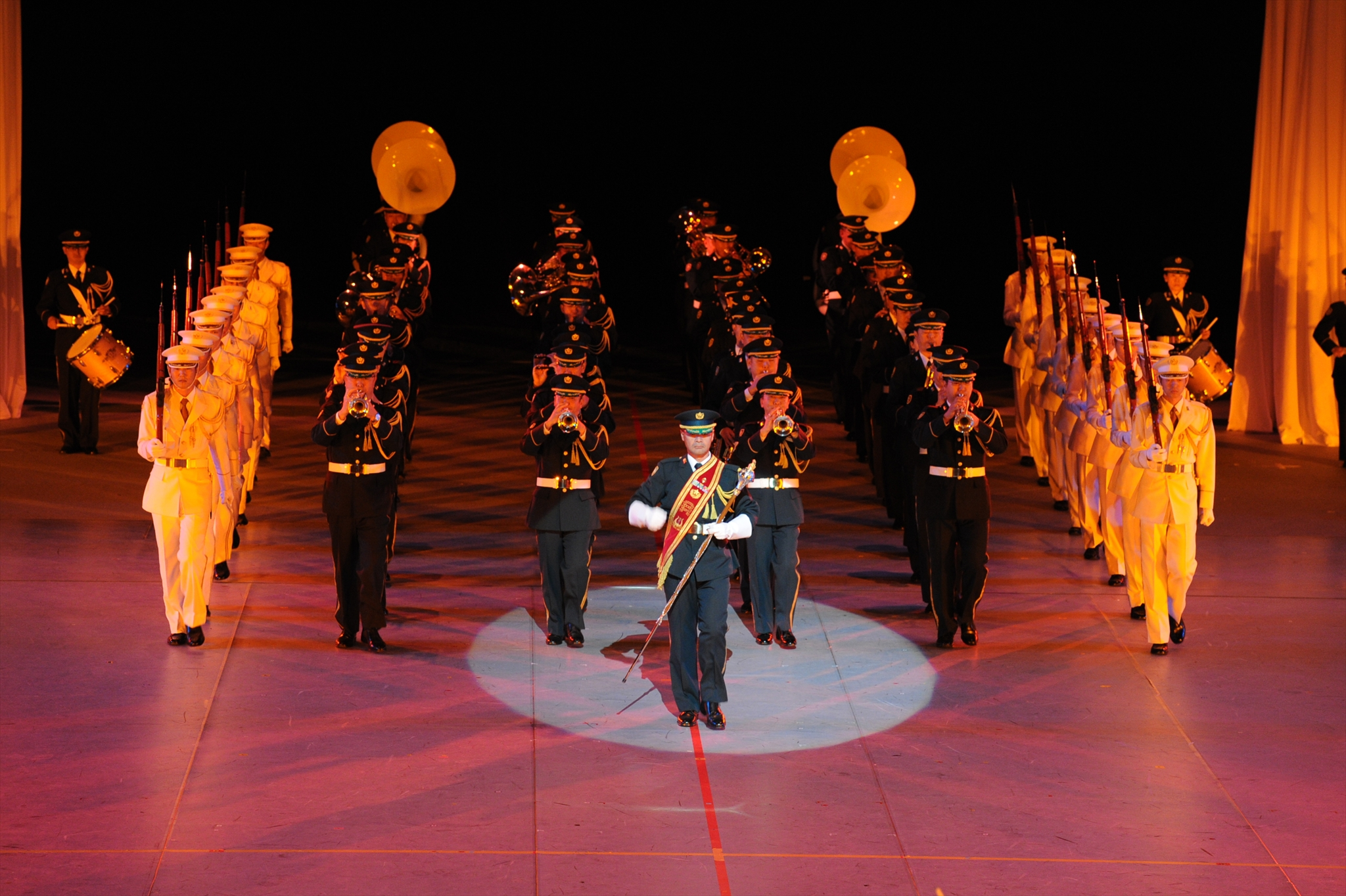 Title 08_081_R.JPG Album 自衛隊音楽まつり 平成２４年度自衛隊音楽まつり 第二章「前進」 中央音楽隊ドリル演奏